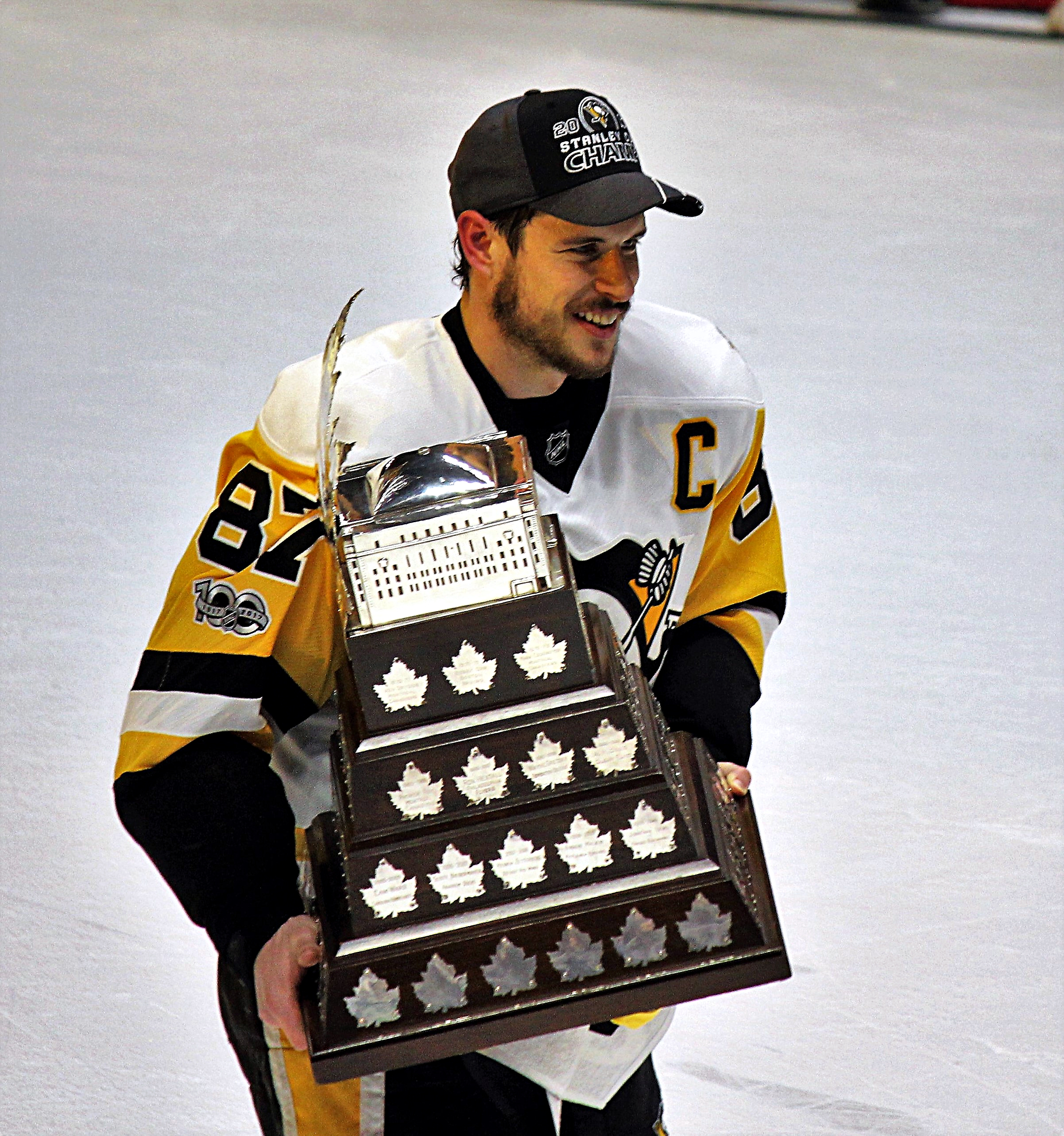 Pittsburgh Penguins captain Sidney Crosby won his second straight Conn Smythe Trophy following the Penguins victory over the Predators, June 11, 2017, at Bridgestone Arena in Nashville, TN.